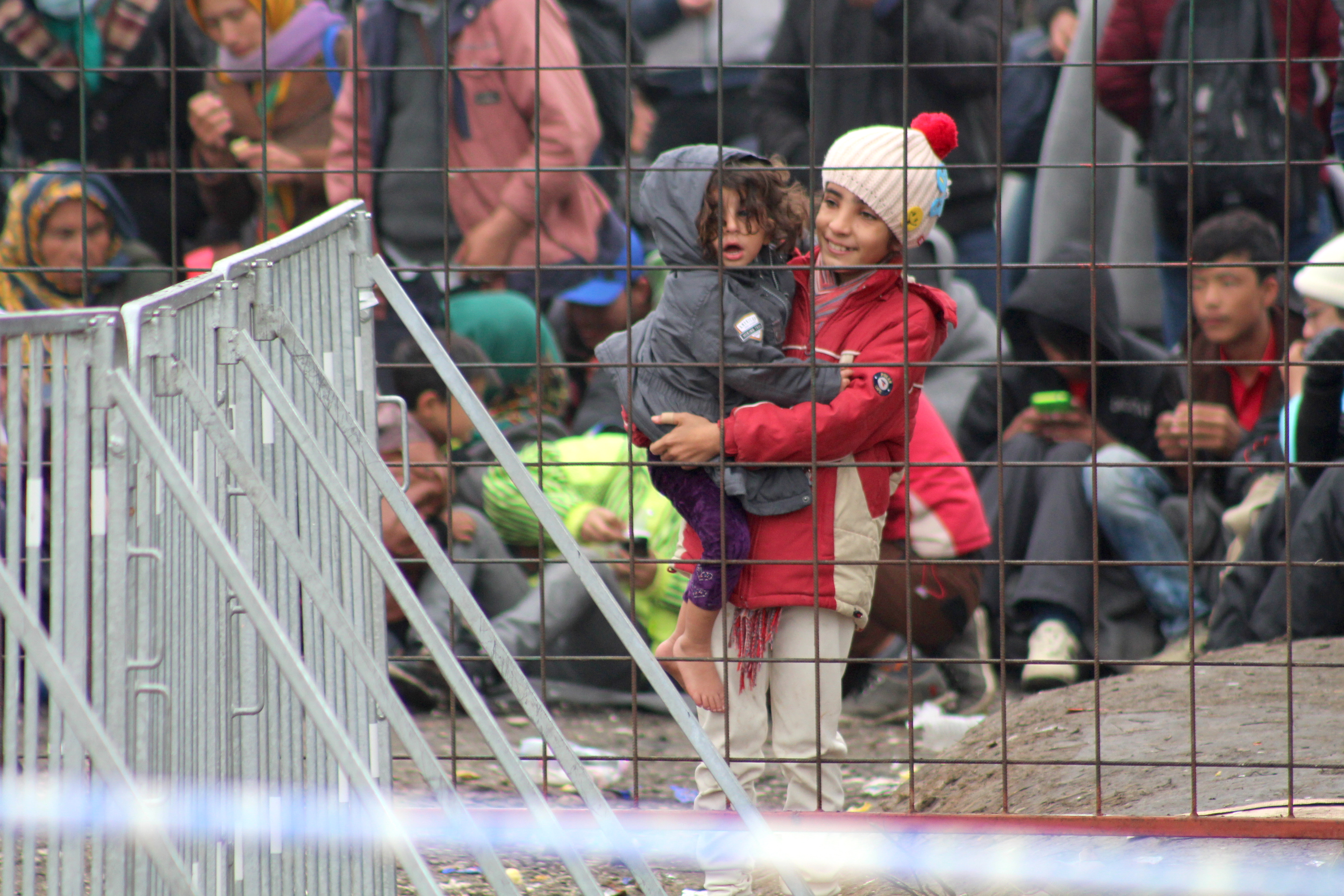 Young refugees in Dobova, Slovenia. Photo: Meabh Smith/Trócaire